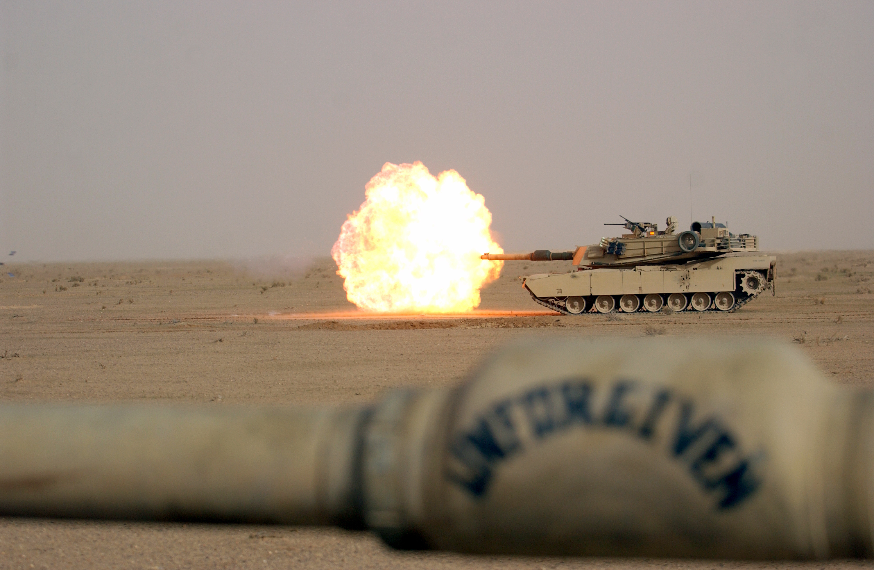 Marines from Tank Platoon, Battalion Landing Team 1st Battalion, 4th Marines, 11th Marine Expeditionary Unit (Special Operations Capable), fire their M1A1 Abrams tank main gun.